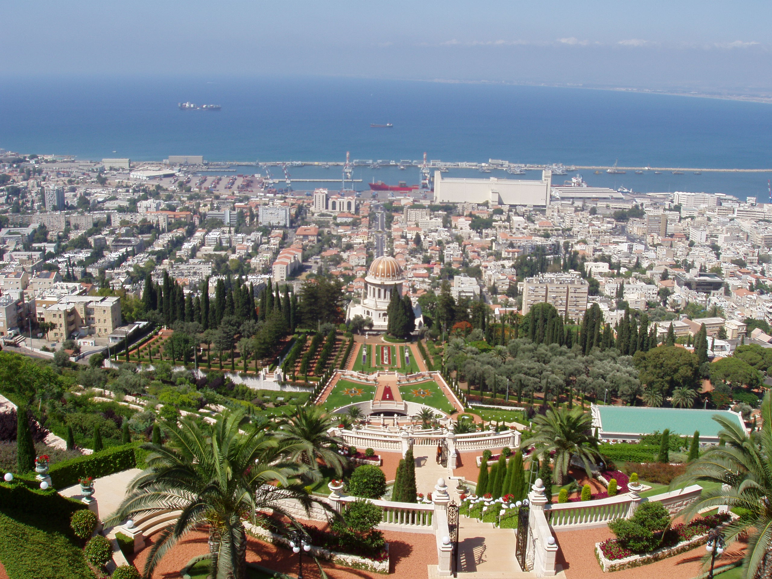 haifa from the bahai gardens